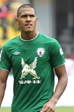 José Salomón Rondón